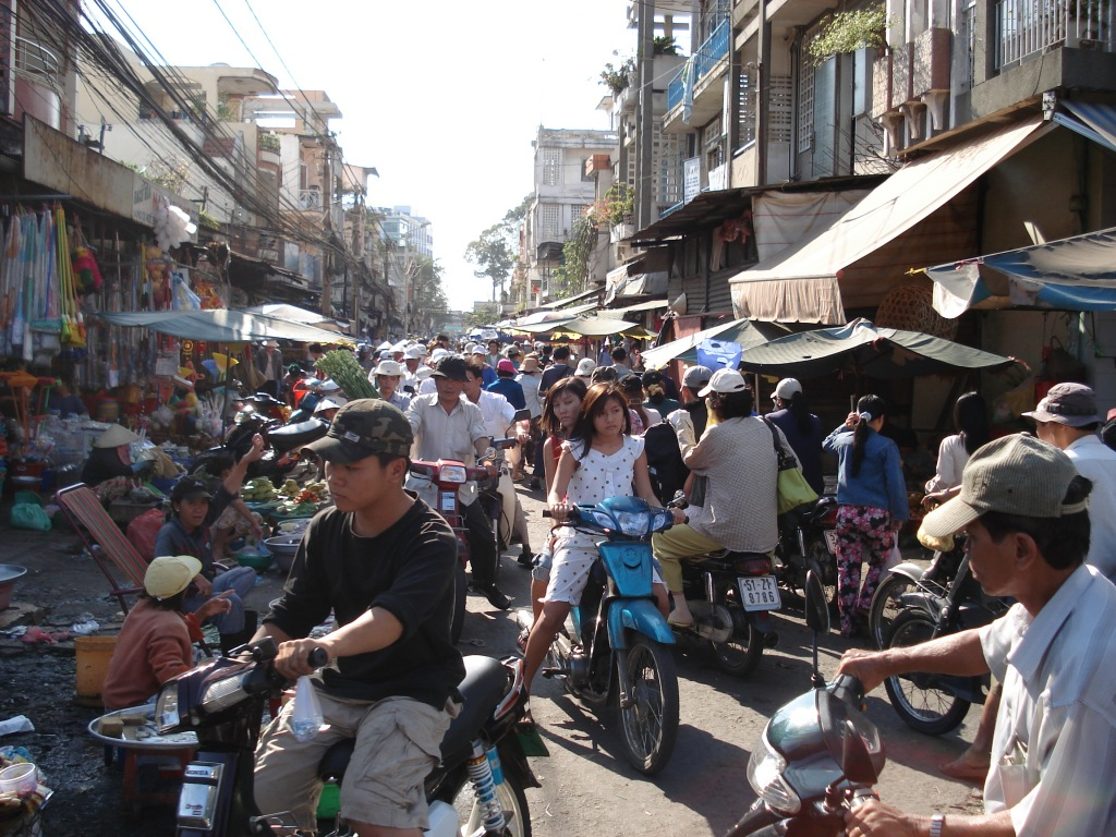 Busy street market on Chau Van Diep street, Binh Thanh district, Ho Chi Minh City, Vietnam.